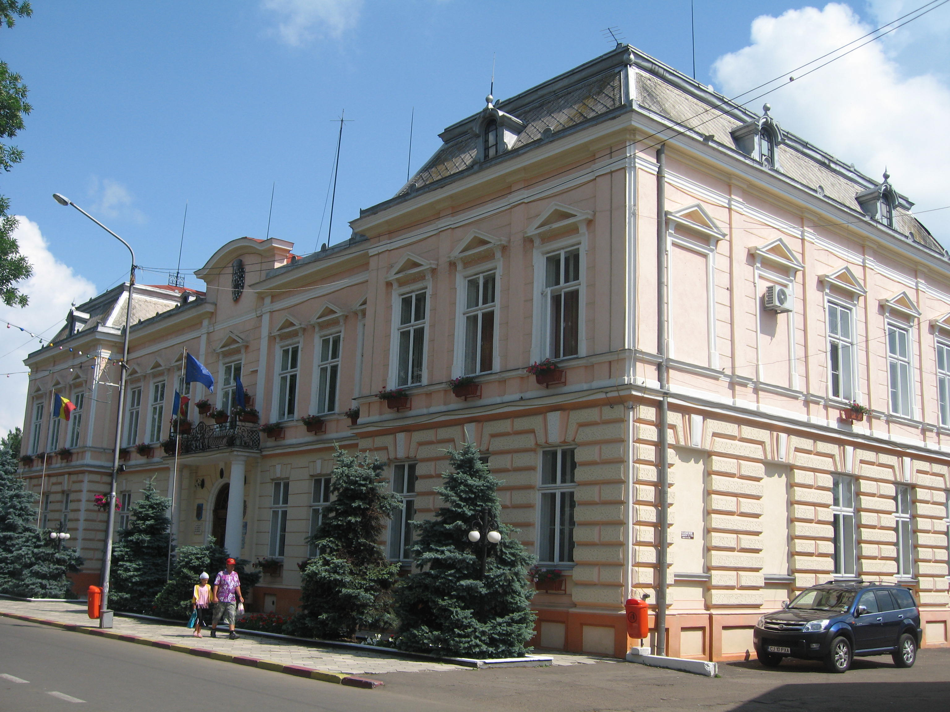 Primăria din Rădăuţi